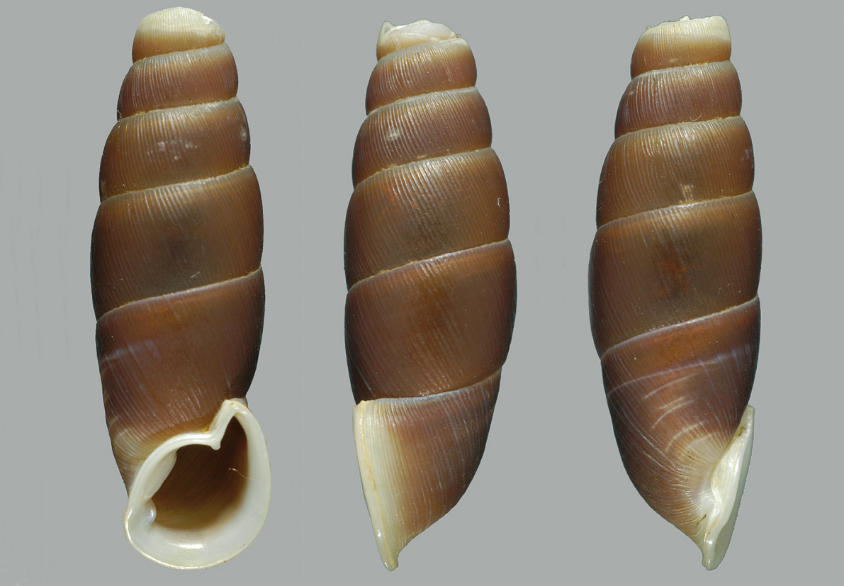 Holotype of Oospira (Oospira) duci, holotype (RMNH 99272). Vietnam, Thanh Hoa Province, Pu Luong National Park, limestone hill near small native village Am, 20°27.39'N 105°13.65'E; 21.ix.2003 (RMNH 99272/holotype). Actual height 21.5 mm.